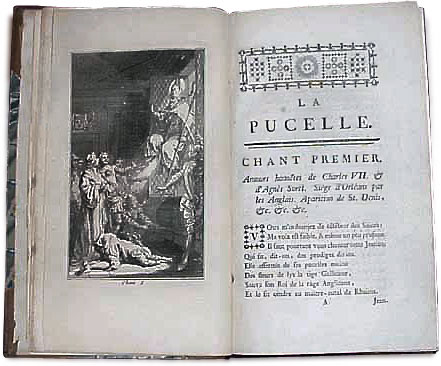 The first edition of Pucelle d'Orléans, Geneva, 1762, authorized by Voltaire